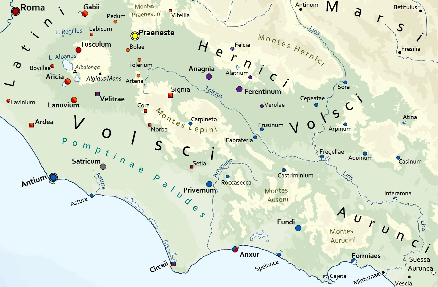 Settlements of Italic tribes.